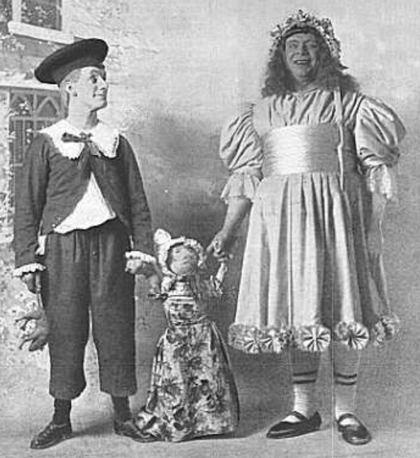 Dan Leno and Herbert Campbell in costume for the 1897 Christmas pantomime The Babes in the Wood at the Theatre Royal, Drury Lane.